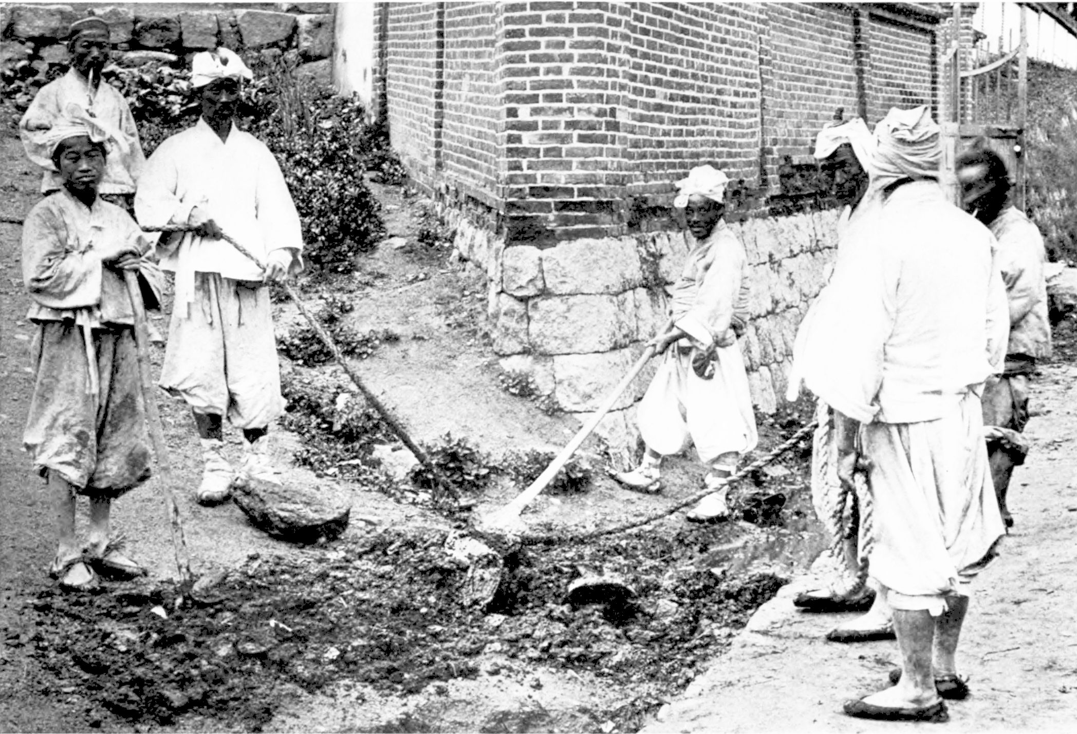 How they shovel dirt, Korea c.1900; page 309. The passing of Korea (book)